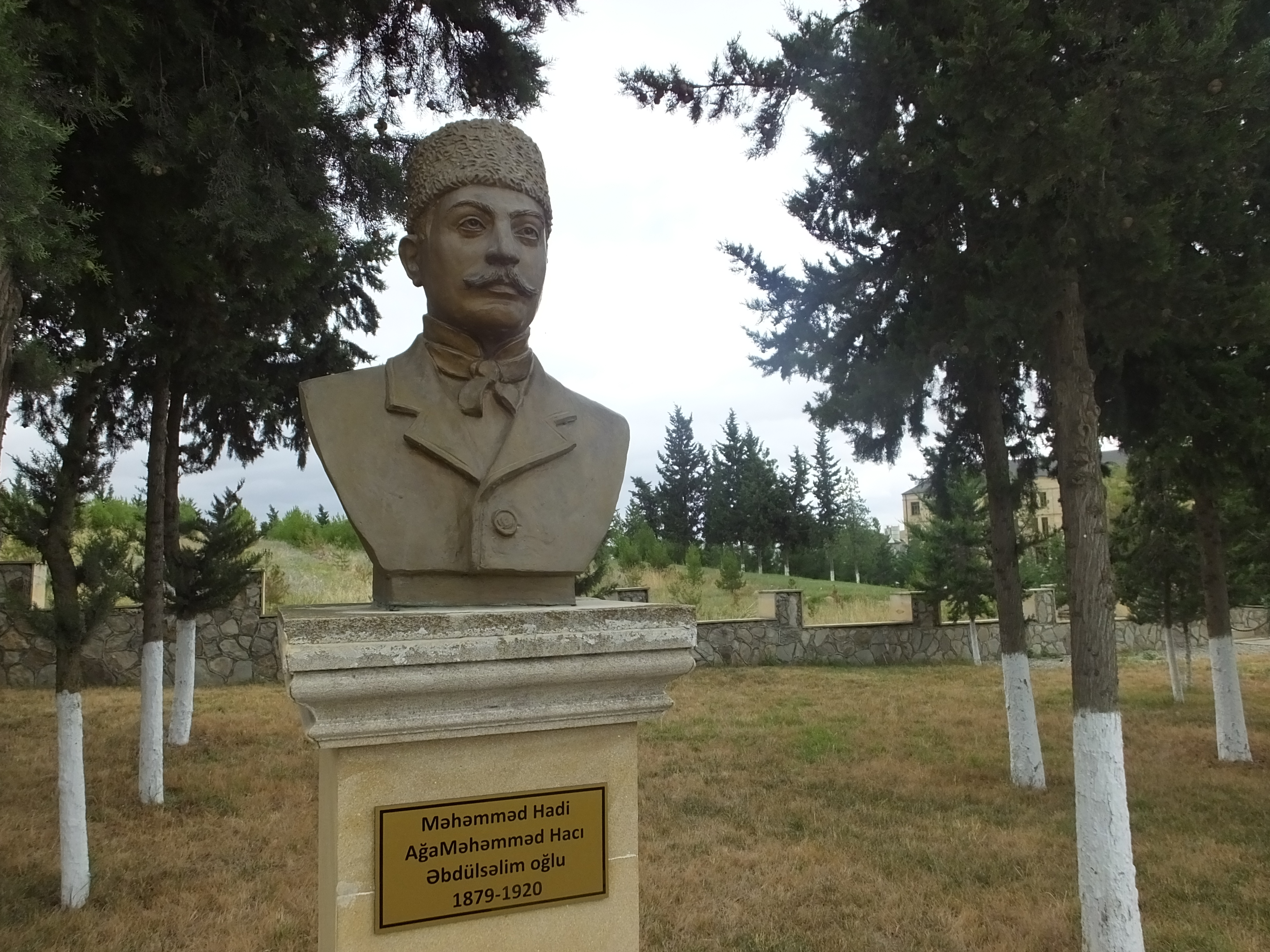 Picture of Muhammad Hadi's bust in Museum of History and Ethnography in Shamakhi taken by Aykhan Zayedzadeh during 2019 Summer Wikicamp Azerbaijan